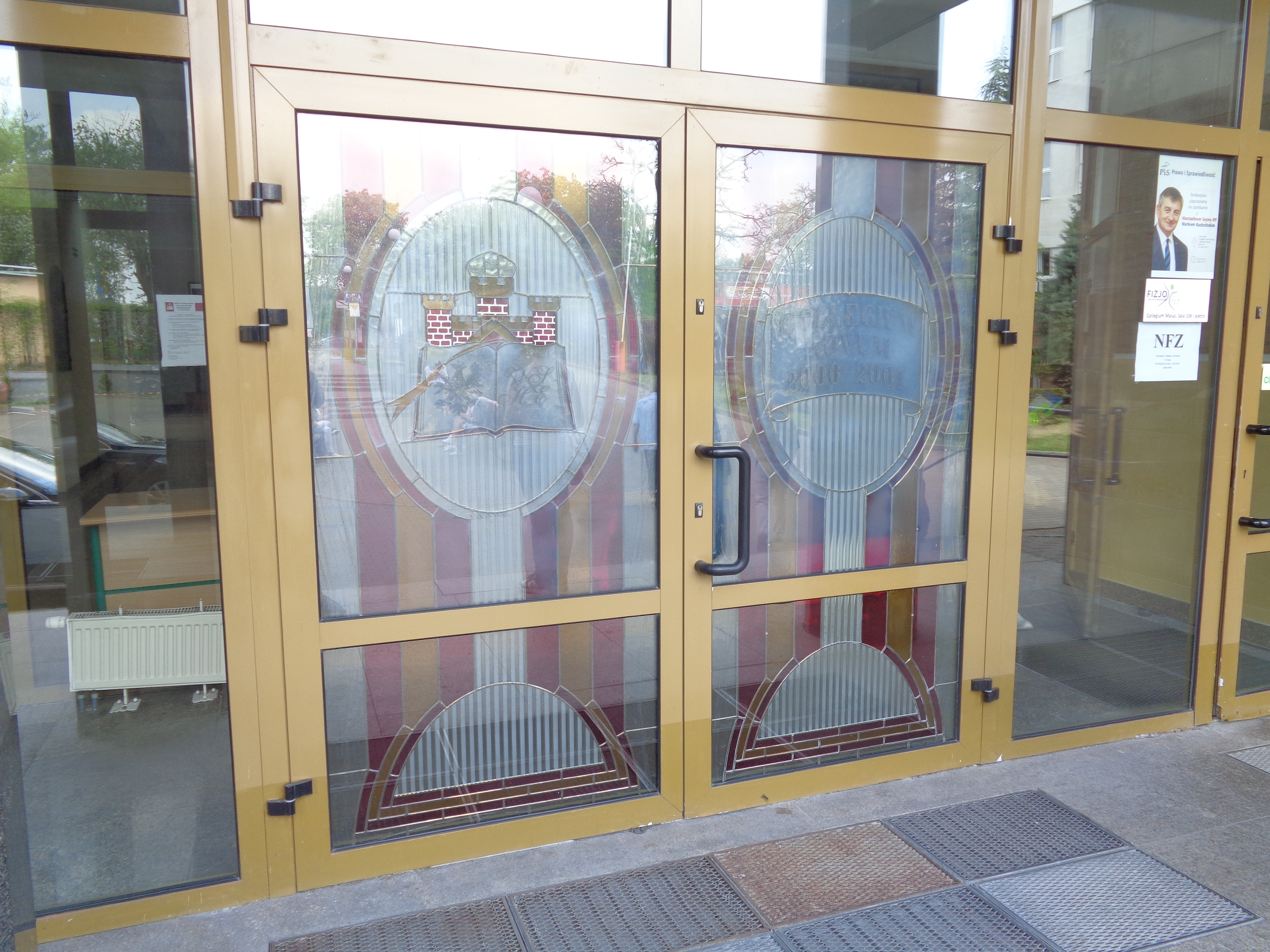 Decorative doors of Collegium Novum of Kujawska Szkoła Wyższa (means: Kuyavian High School, precisely it is Kuyavian University), with arms of cout and date when it was building: 2000-2001.